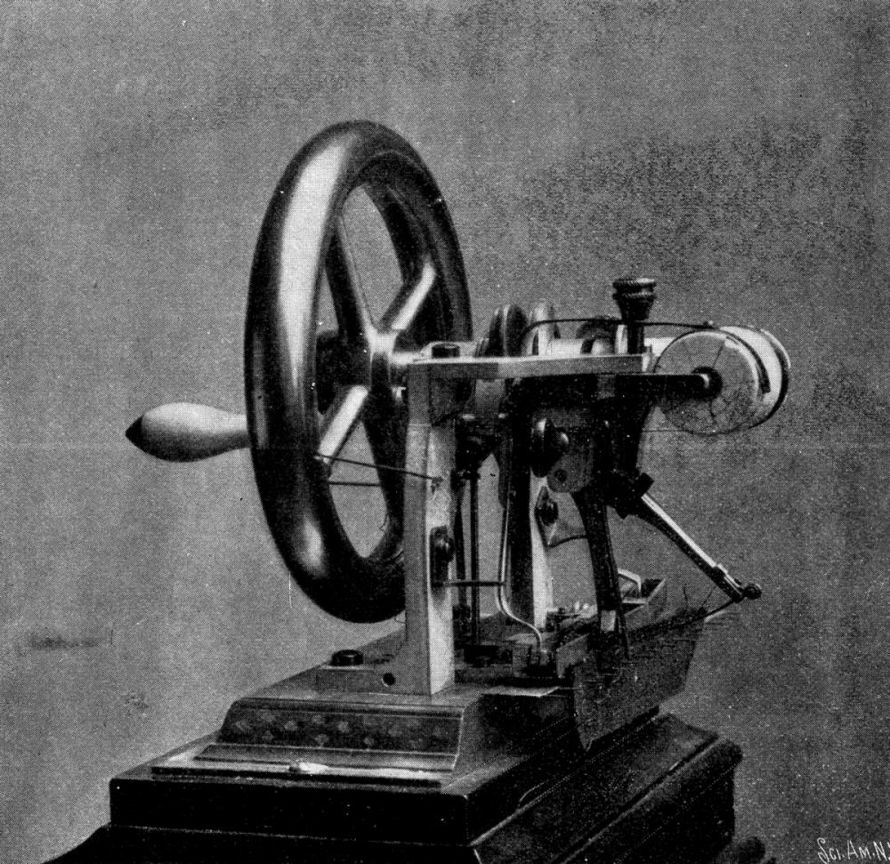 The Elias Howe machine, September 10, 1846. Earliest model filed in Patent Office.